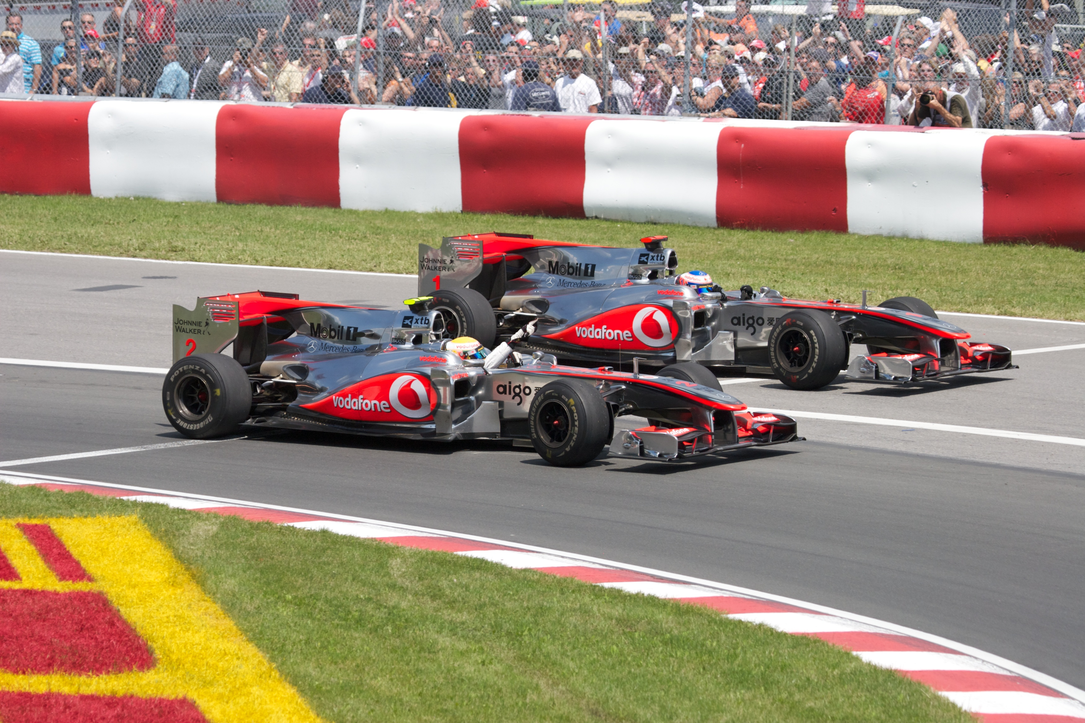 Formula One 2010 Rd.8 Canadian GP: Lewis Hamilton and Jenson Button giving 1-2 finish for McLaren.